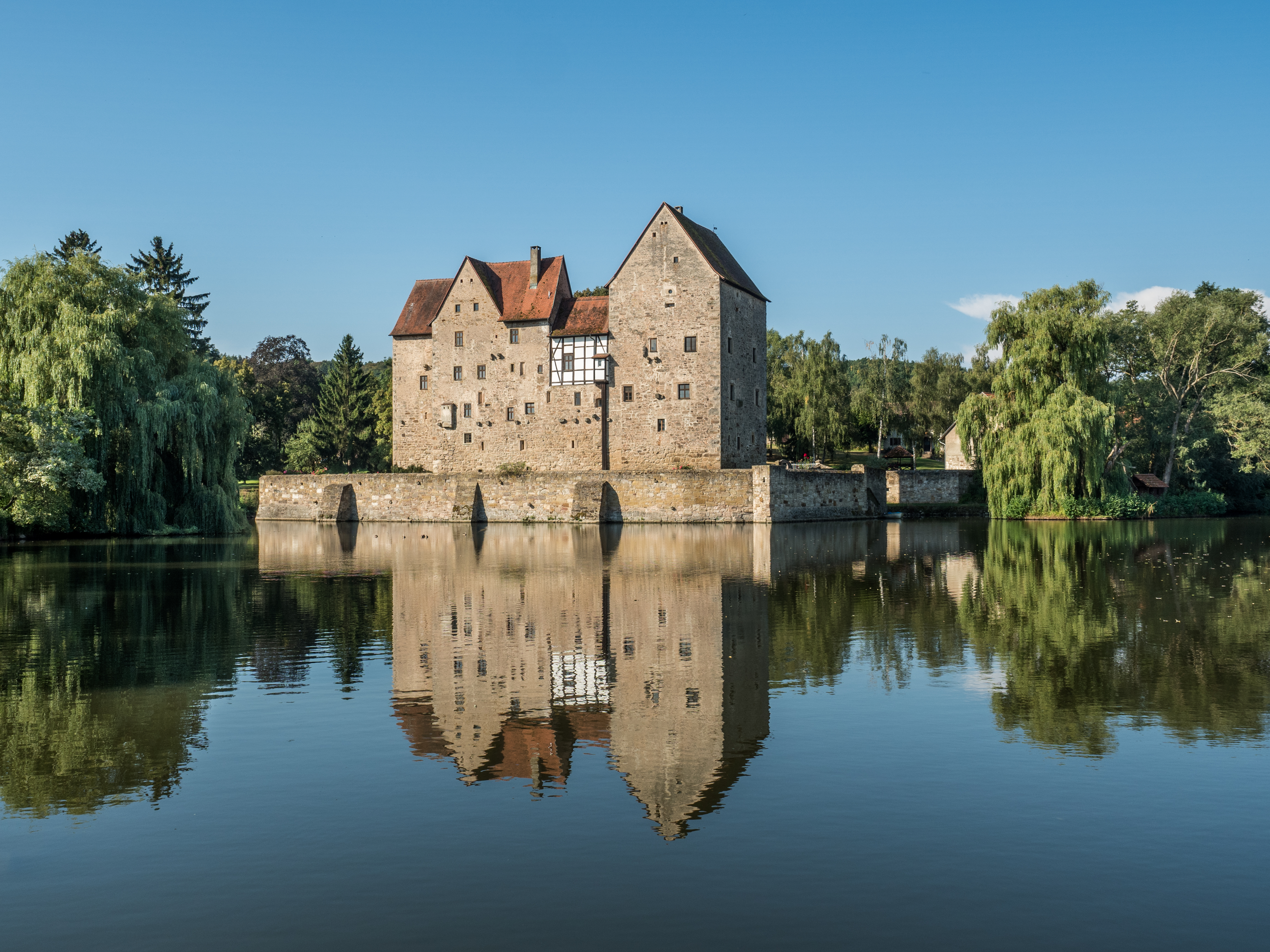 Brennhausen castle